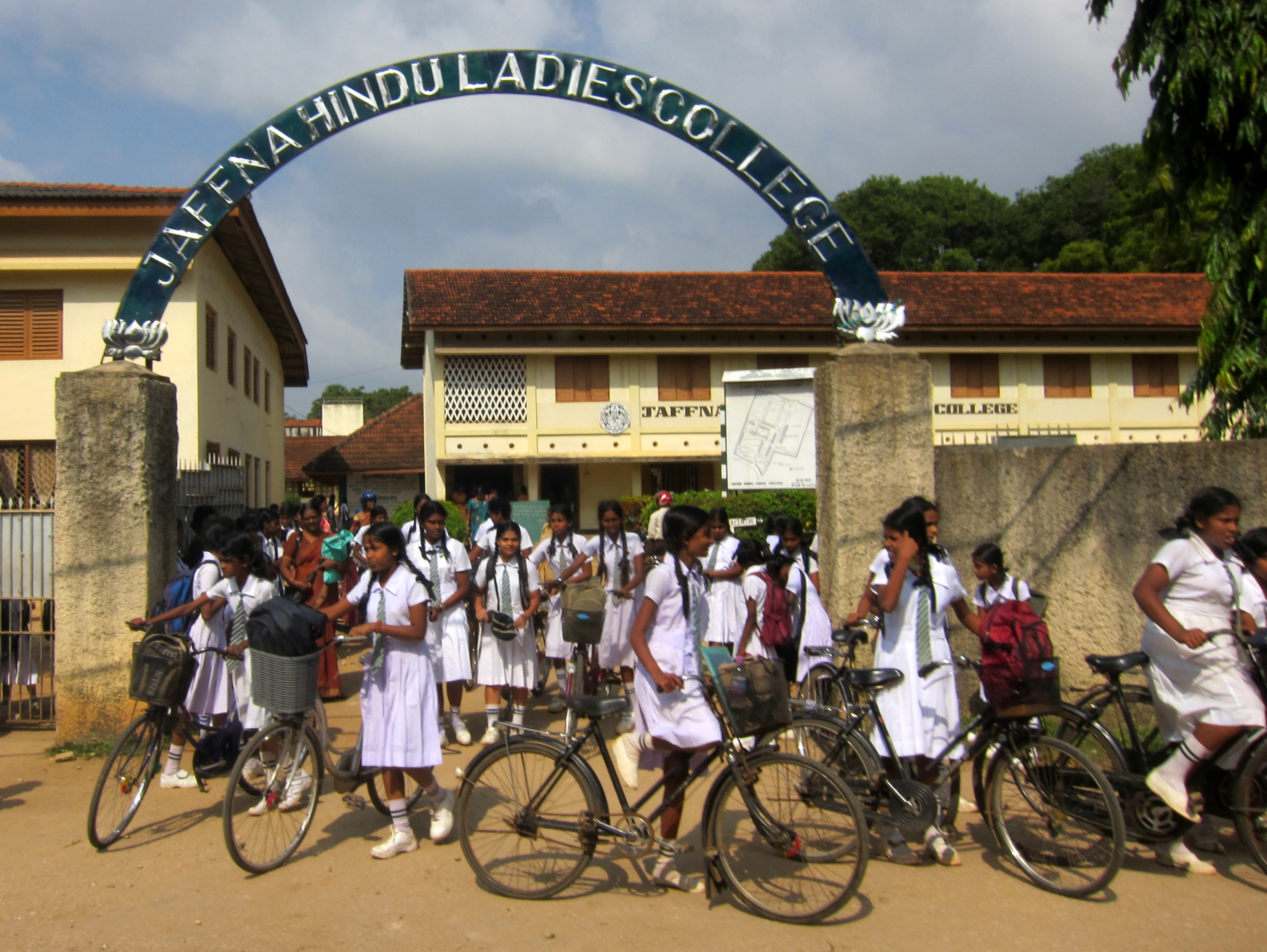 Students streaming out of Jaffna Hindu Ladies college